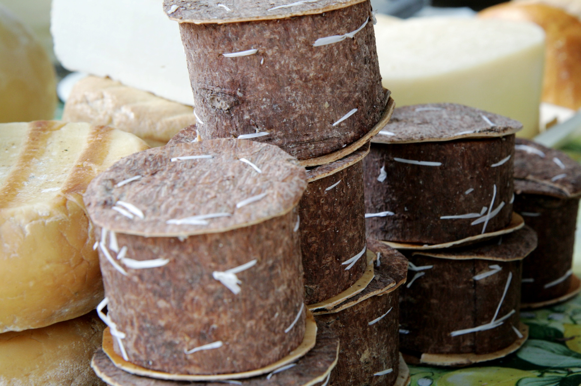 Brânză de burduf cheese from Romania